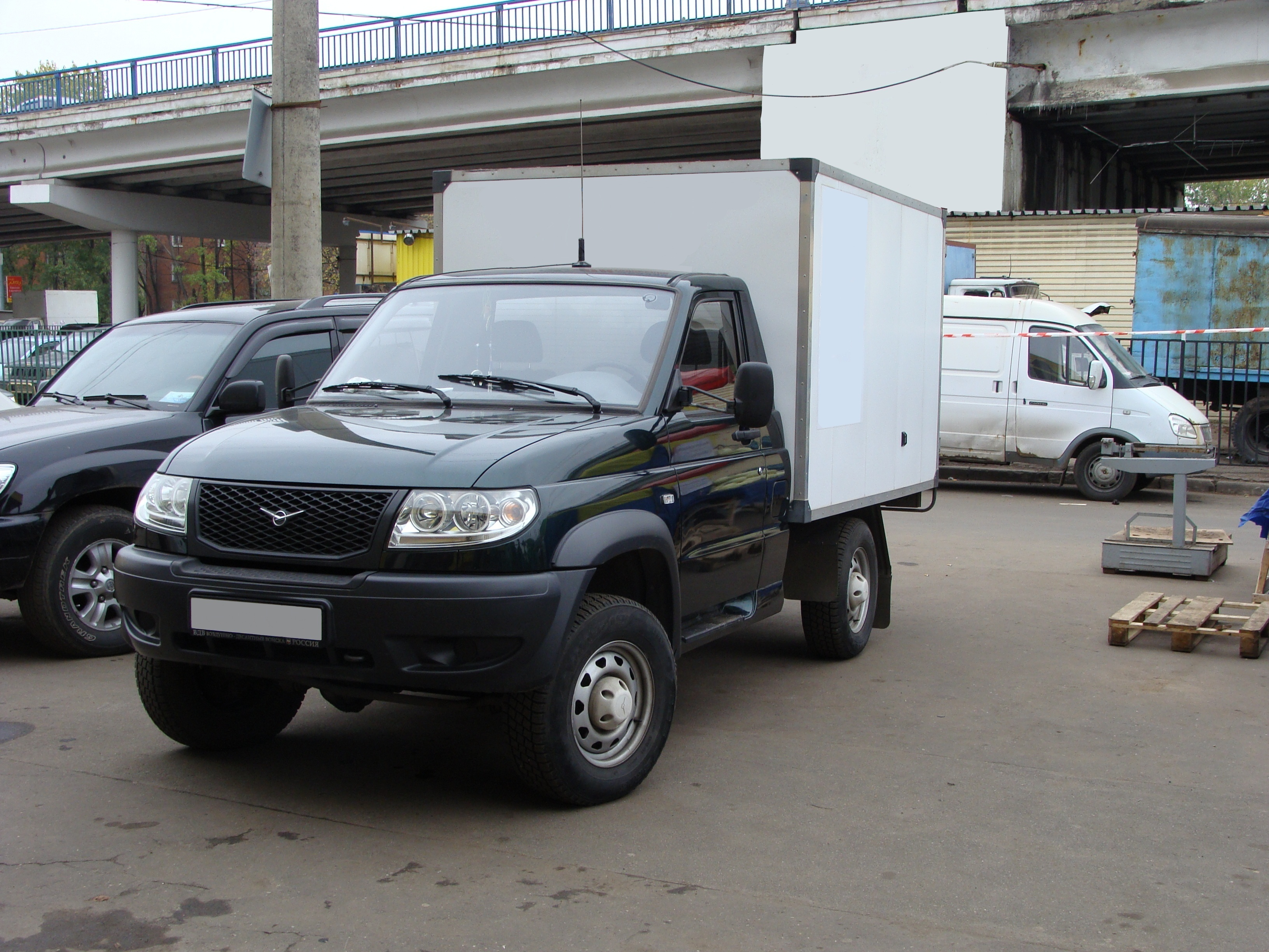 UAZ Cargo